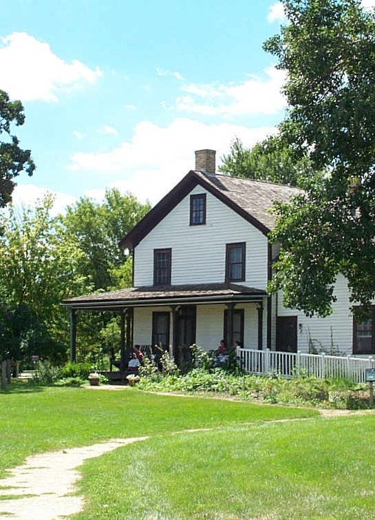 Gibbs farm house from the Gibbs Museum of Pioneer and Dakotah life.